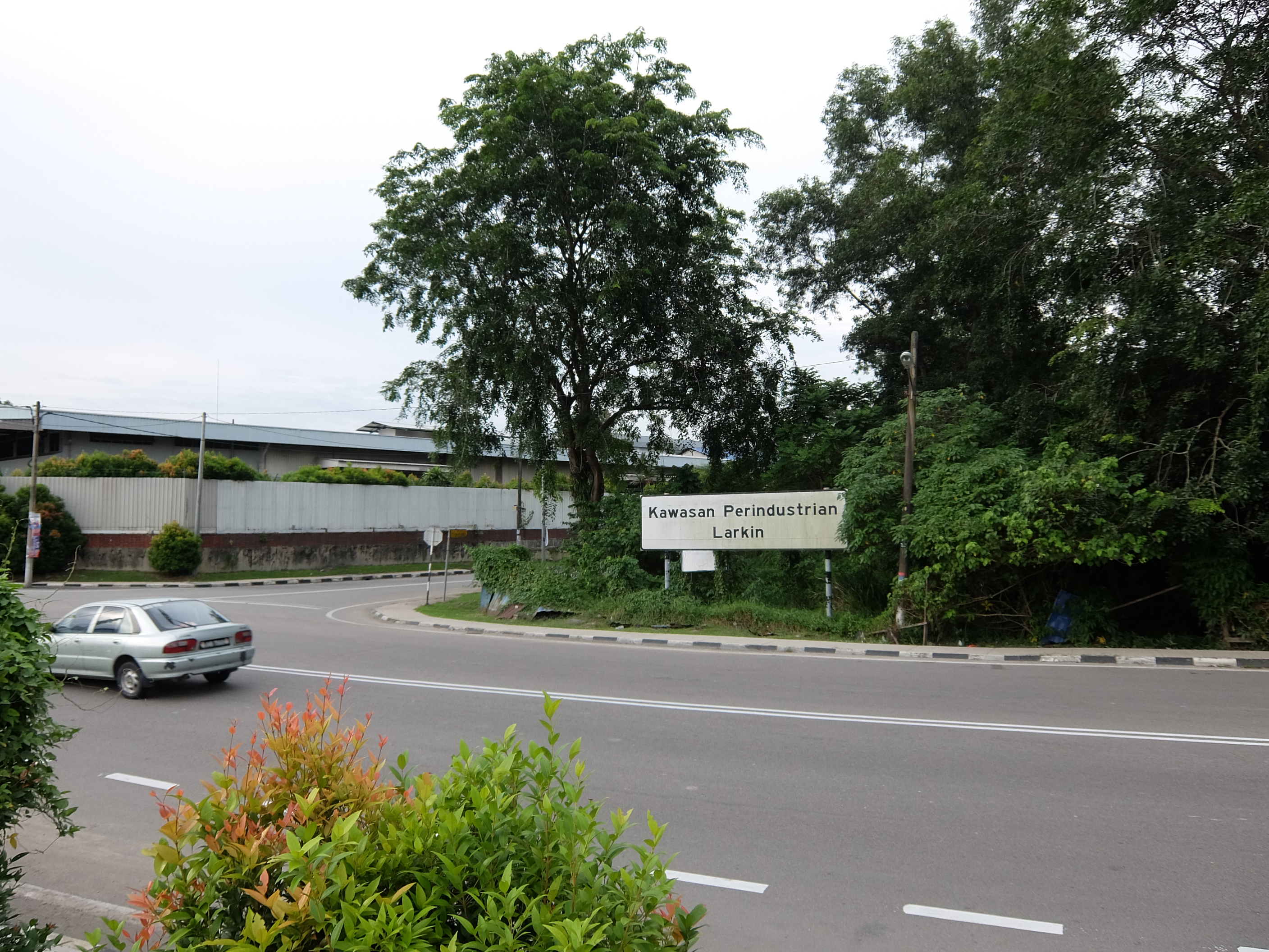 Larkin Industrial Area, Larkin, Johor Bahru, Johor, Malaysia